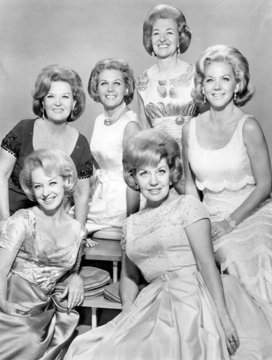 Publicity photo of the King Sisters from the television show The King Family. Seated from left: Yvonne, Alyce. Standing: Donna, Luise, Maxine, Marilyn.